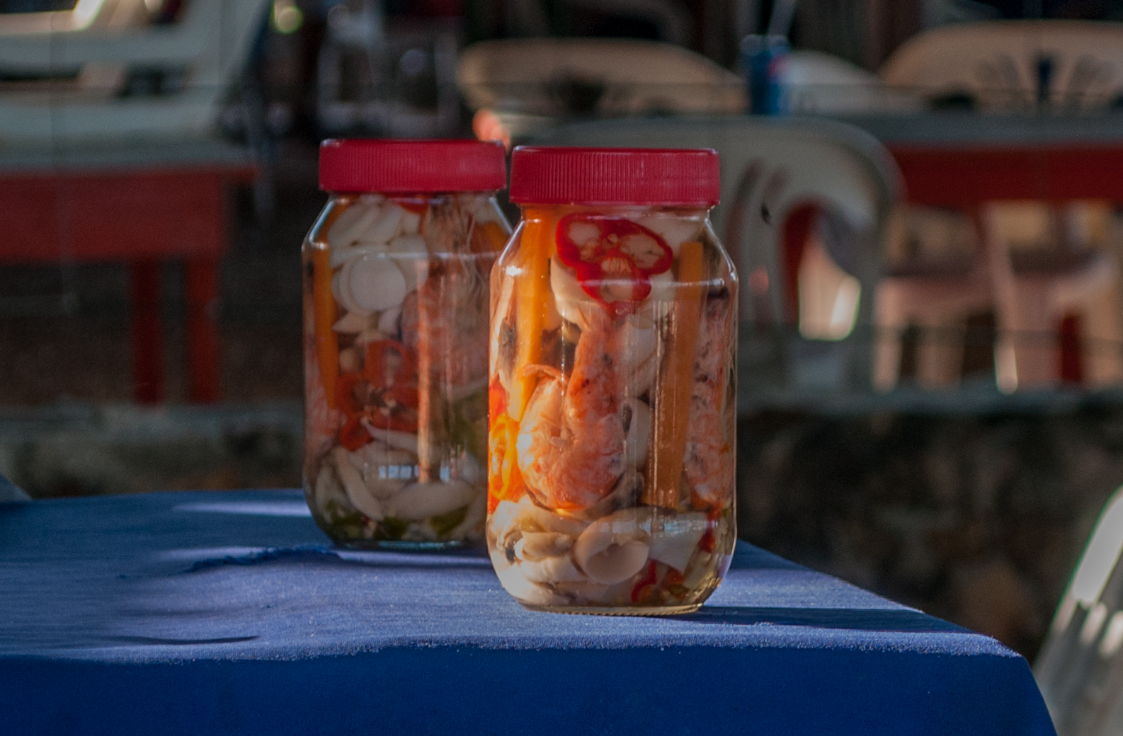 Rompecolchón